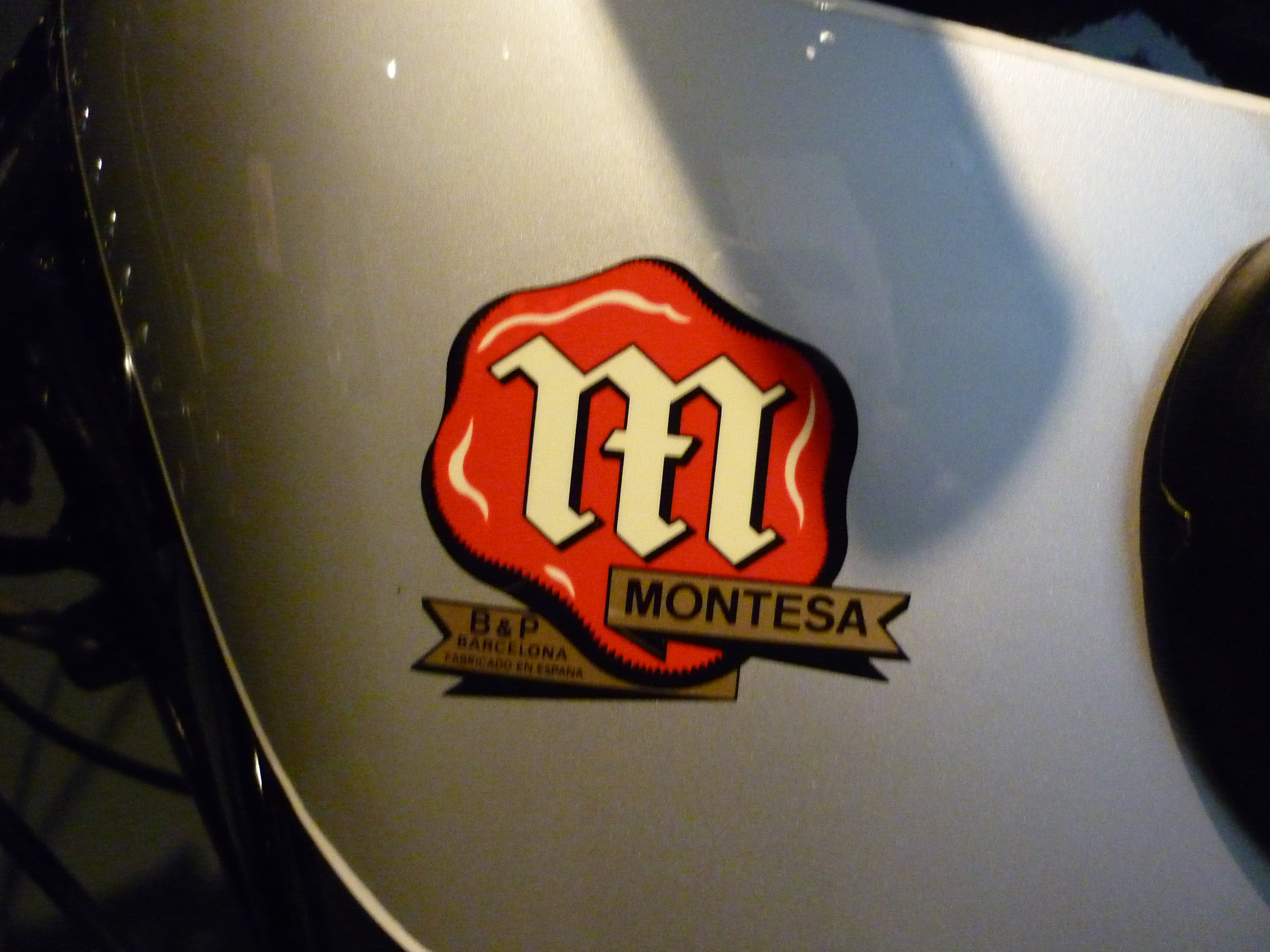 Montesa logo on a B-46/49 tank (1949)